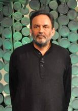 Prannoy Roy at the NDTV Greenathon at Yash Raj Studios